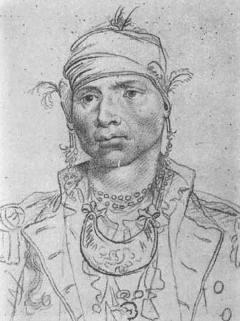 Hopothle Mico, a member and a chief of the Creek nation who was most likely present at the signing of the Treaty of New York on August 7, 1790. (5 X 3 7/8. Pencil. Inscribed on back: Hopothle (?) Mico or / the Talasee (?) King / N York July 1790.)